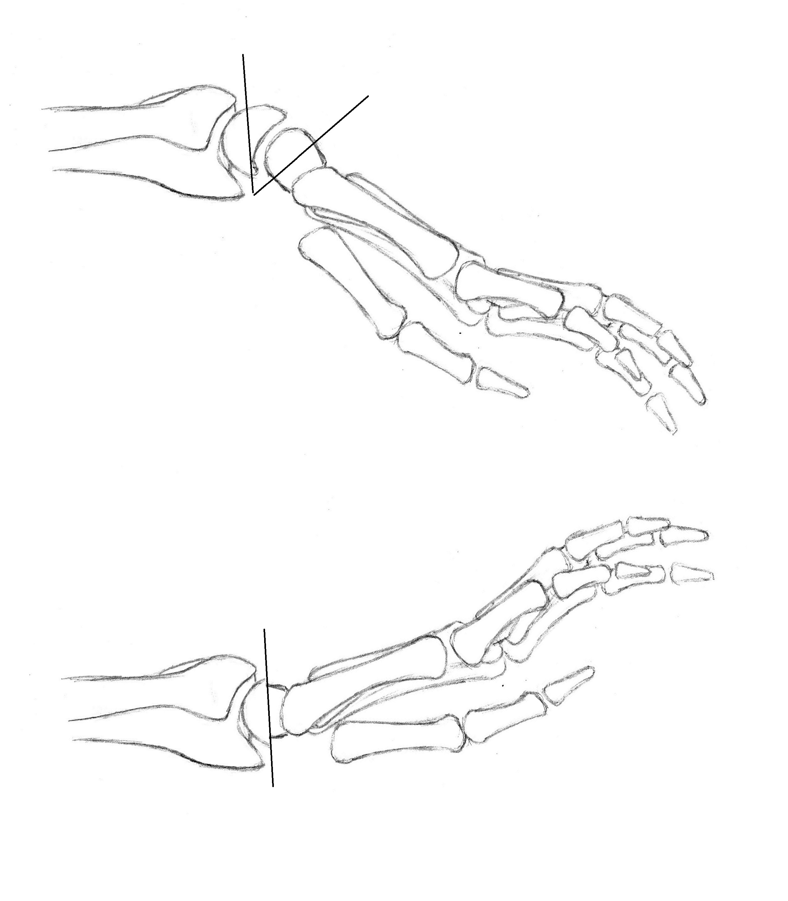 Index rotation flap